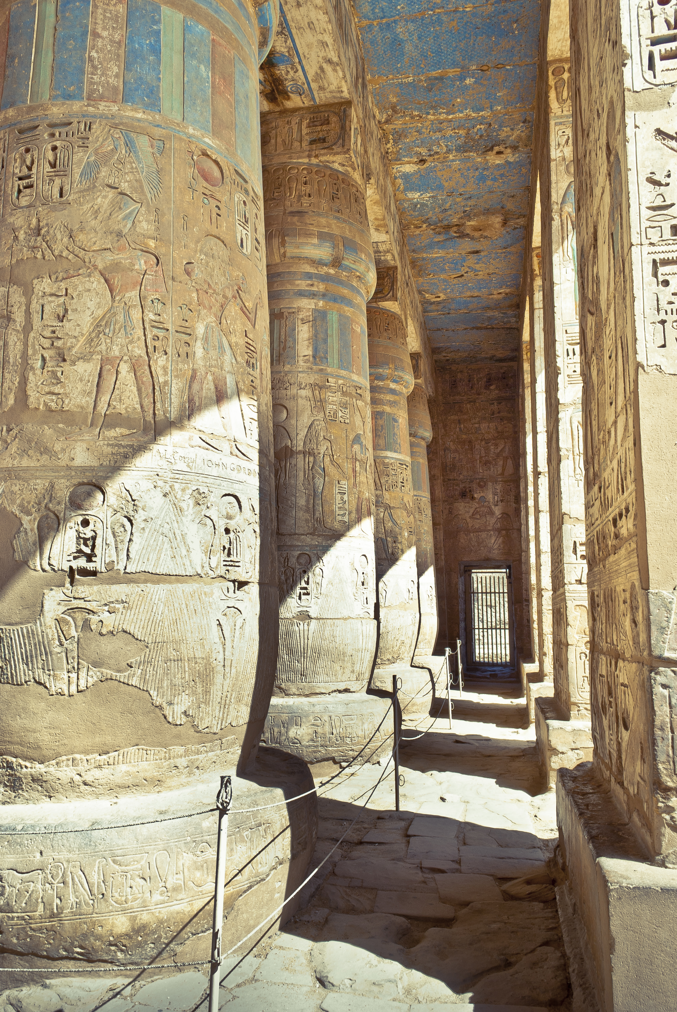 The Mortuary Temple of Ramesses III at Medinet Habu is an important New Kingdom period structure in the West Bank of Luxor in Egypt. Aside from its size and architectural and artistic importance, the temple is probably best known as the source of inscribed reliefs depicting the advent and defeat of the Sea Peoples during the reign of Ramesses III